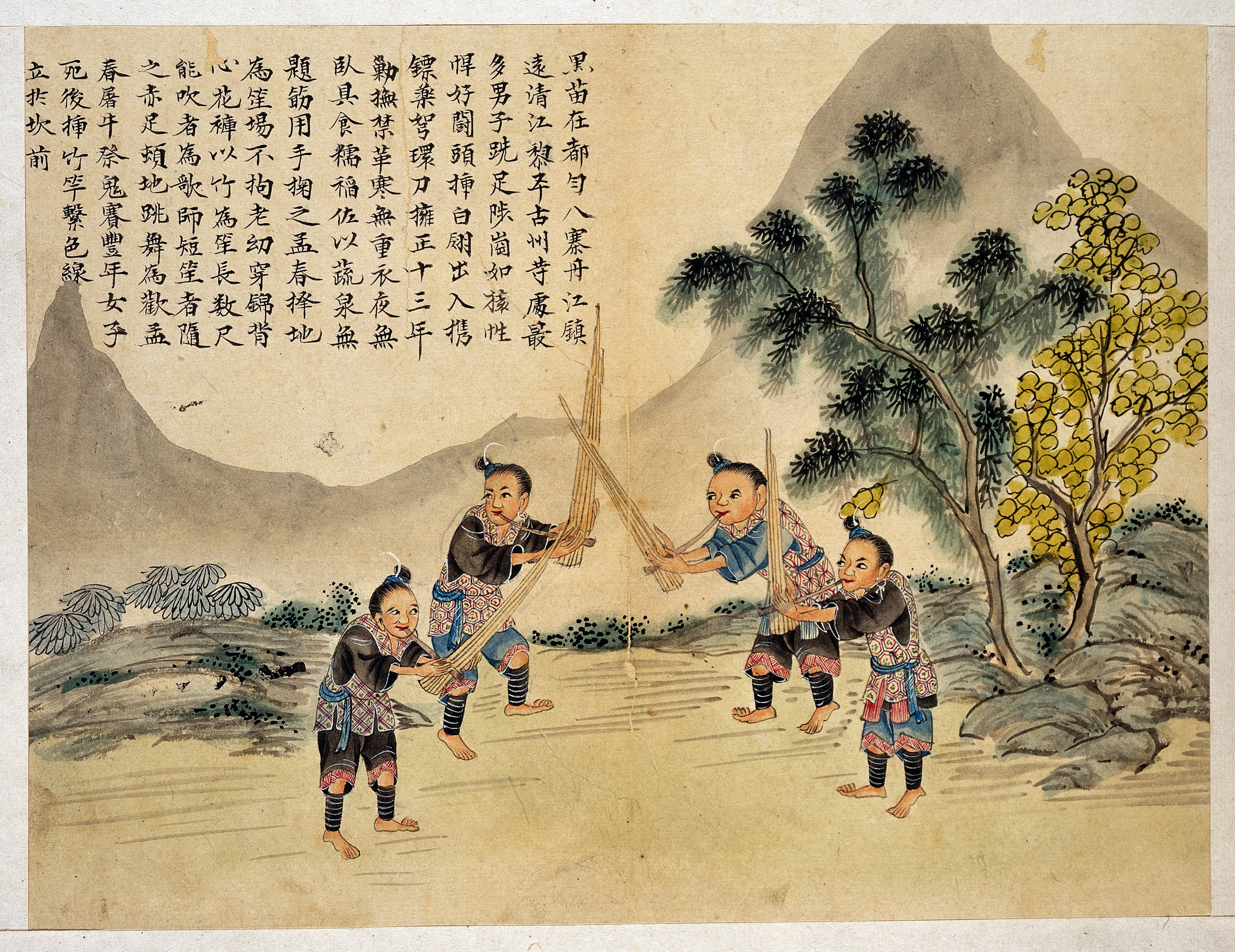 Hei Miao. Four men of the Hei Miao (Black Miao) tribe playing the mouth-organ. Asian Collection Keywords: Anthropology; Custome; China; Population Groups; Tribe